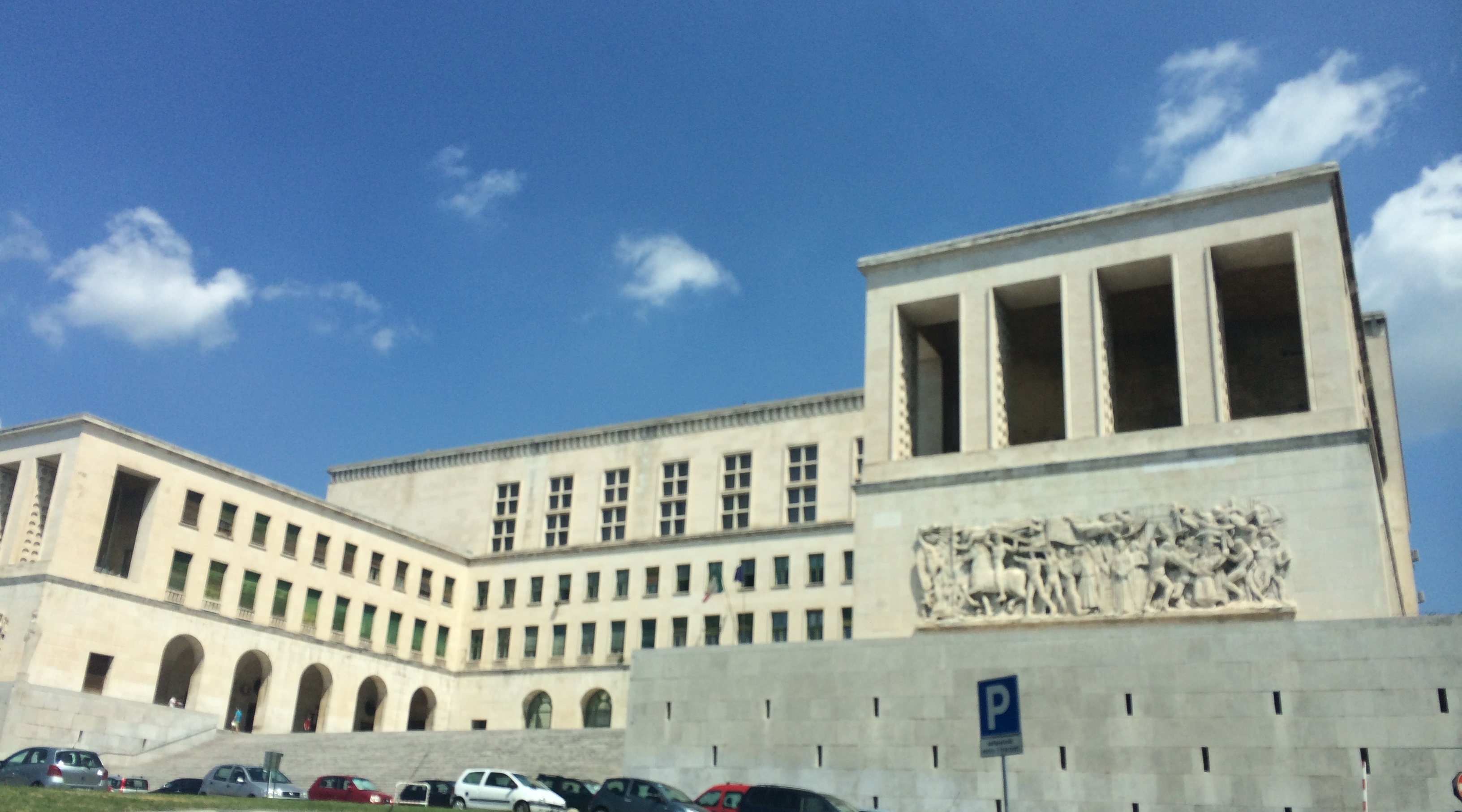 Universita degli studi de Trieste, an university in the city of Trieste, Italy